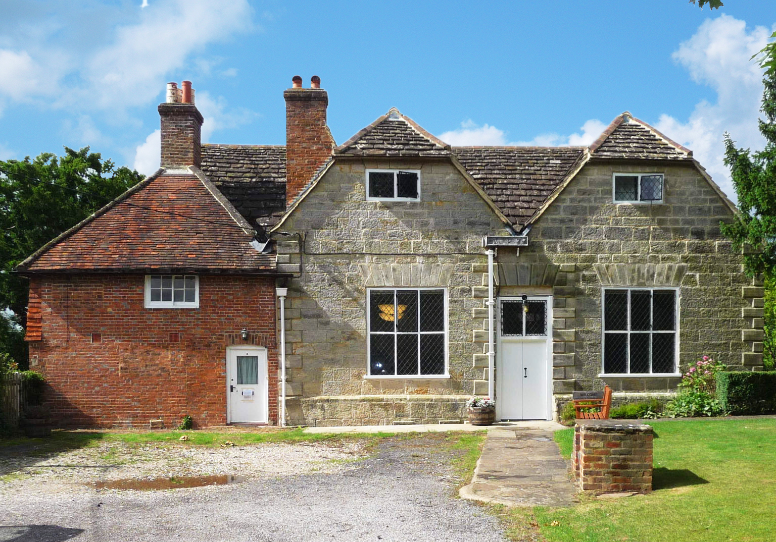 Friends' Meeting House (right) and adjacent Meeting House Cottage (left), Langley Lane, Ifield, West Sussex